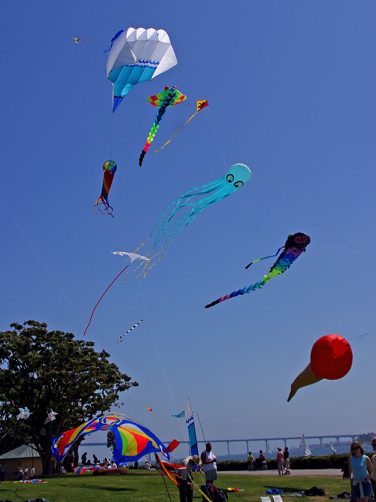 Image title: Kites flying on sky Image from Public domain images website